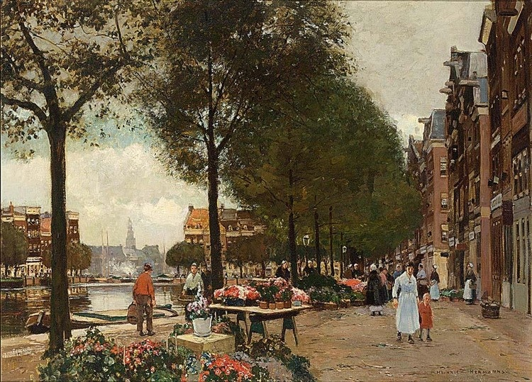 Flower Market Amsterdam with a view of the Munt Tower